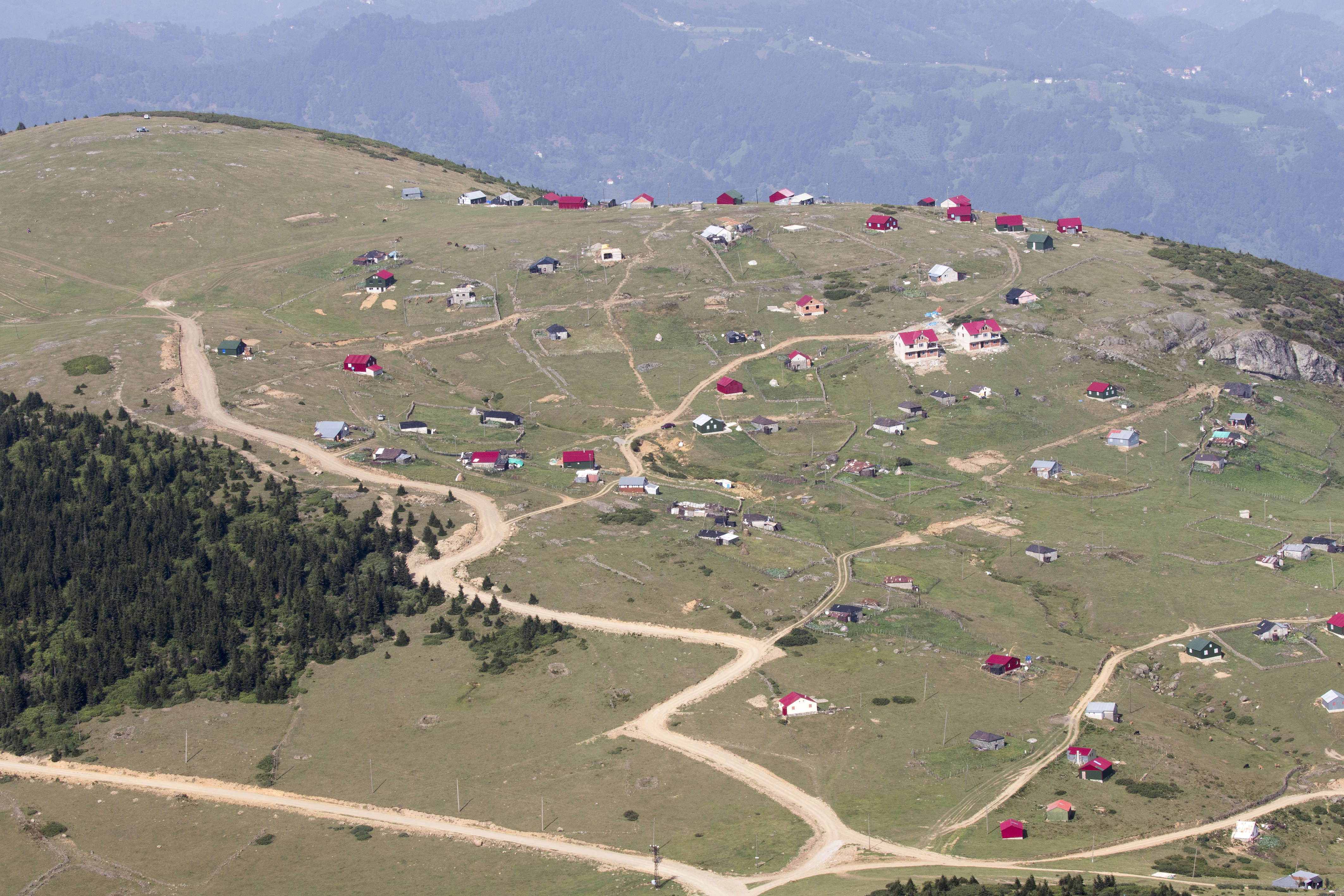 A partial view of Pelitcik from the hill of Sisdağı Mt. Şalpazarı, Trabzon - Turkey.